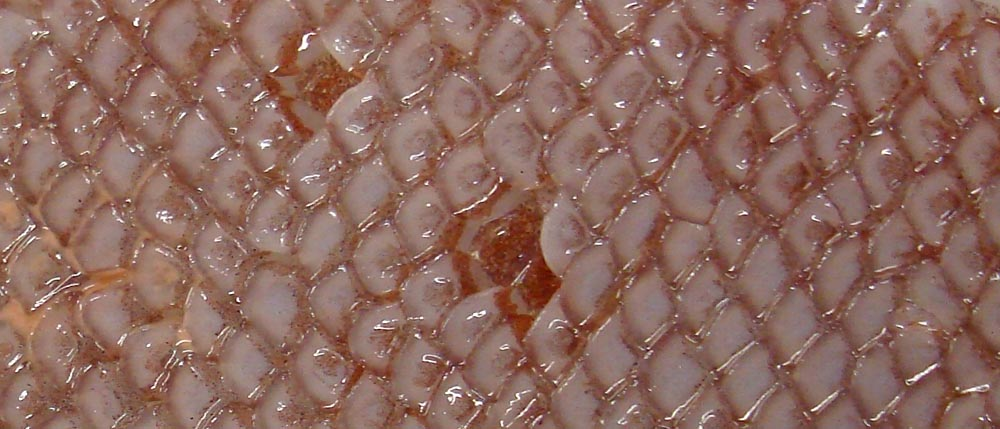 Lepidoteuthis grimaldii dermal scales (617 mm ML)